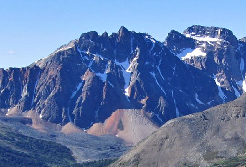 Terminal Mountain, Jasper National Park, Alberta. Seen from Whistler's Peak